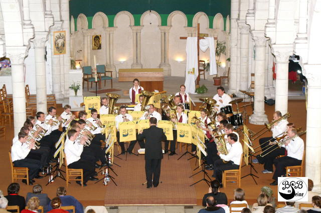 brass band